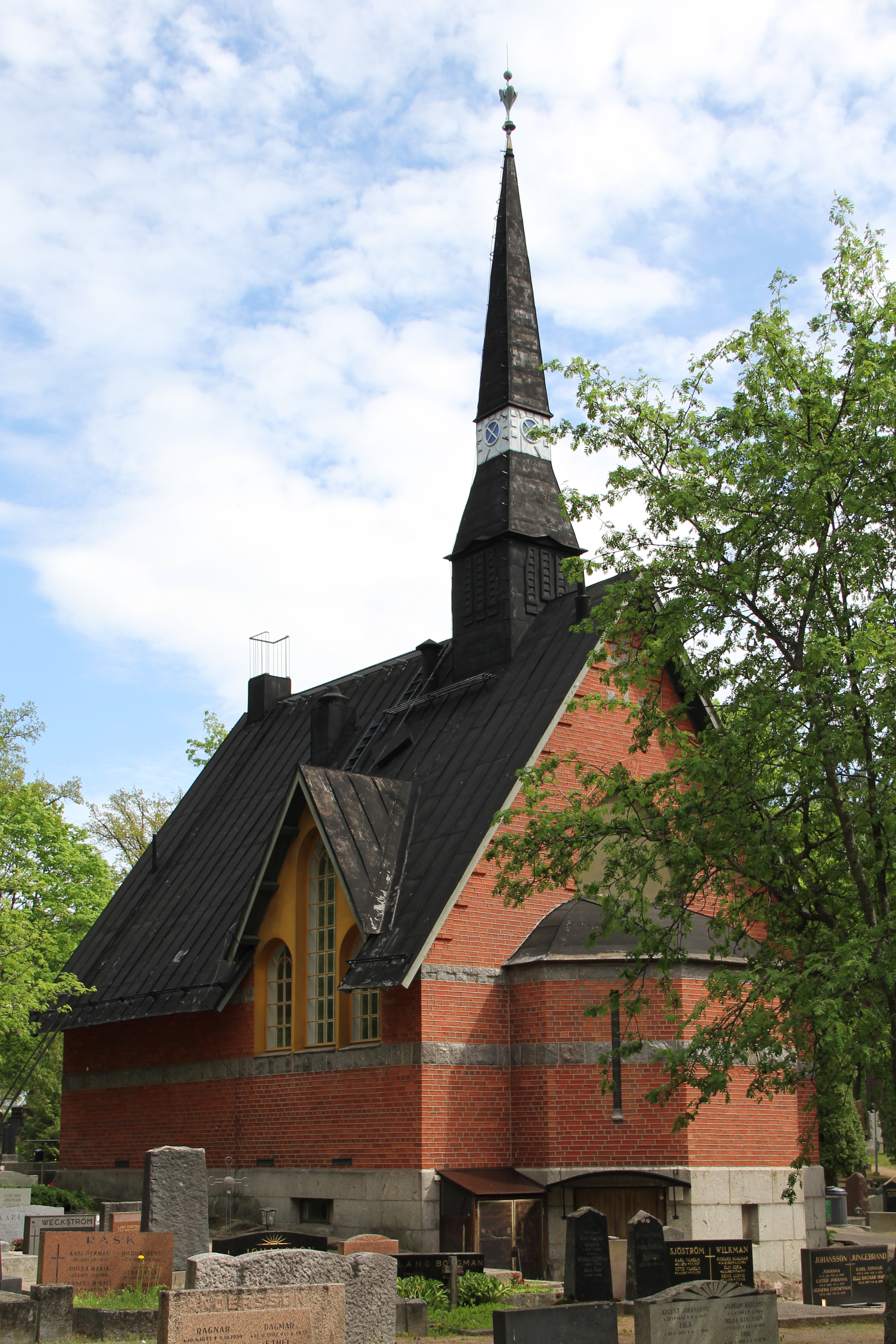 Näsinmäki cemetery chapel, Porvoo, Finland. The chapel was completed in 1907 and designed by architect Gustaf Nyström.